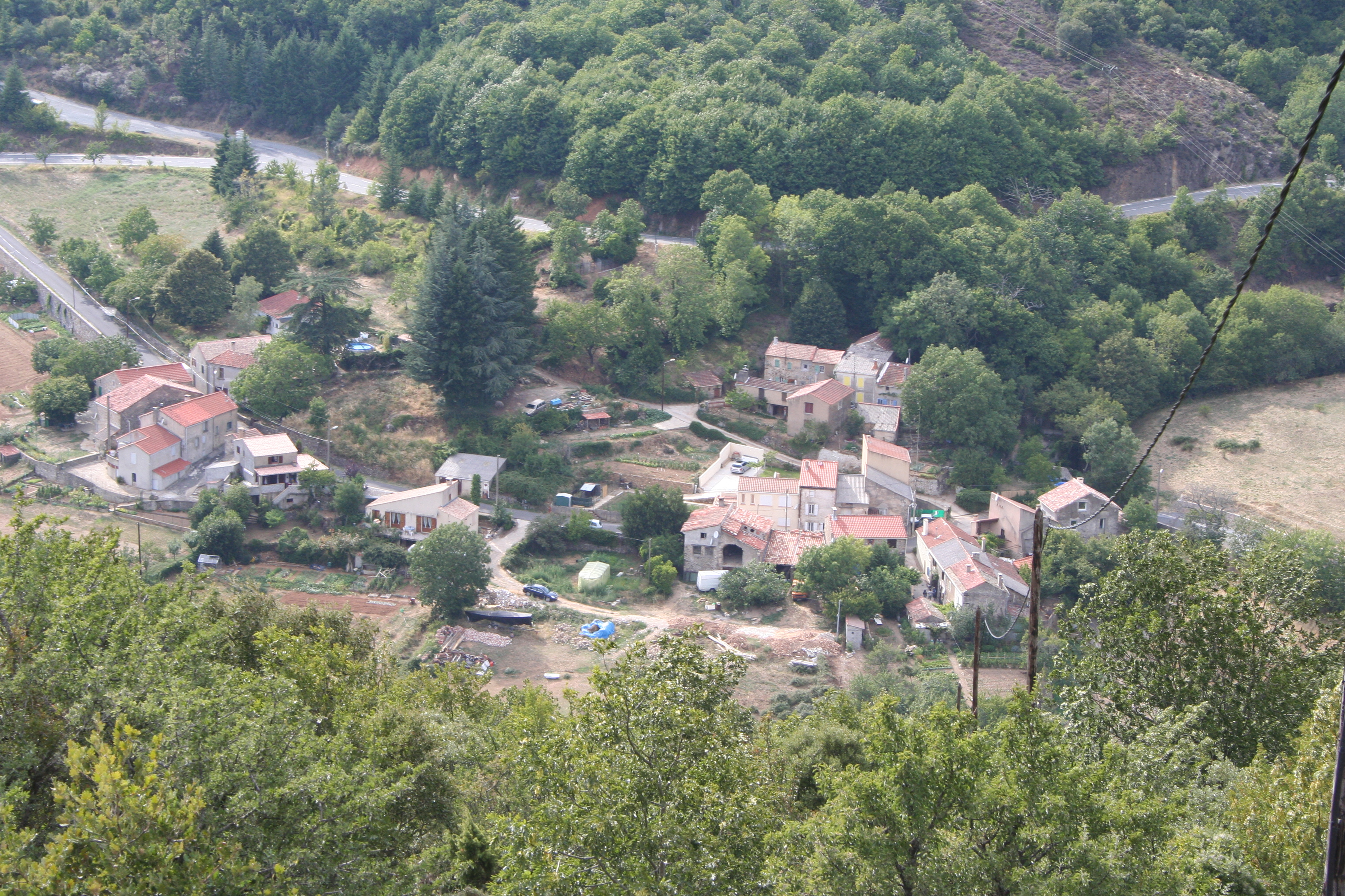 Rieussec, France viewed from peak Fabio Iannelli 2006